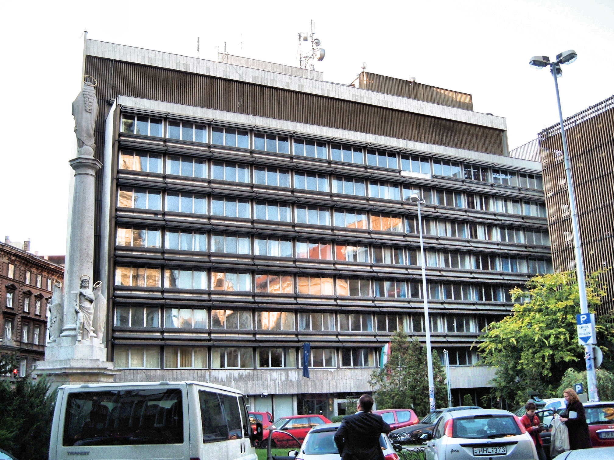 Office building on Szervita tér (former Martinelli tér), Budapest. Architects: István Szabó and Zoltán Jakab, 1969-1973